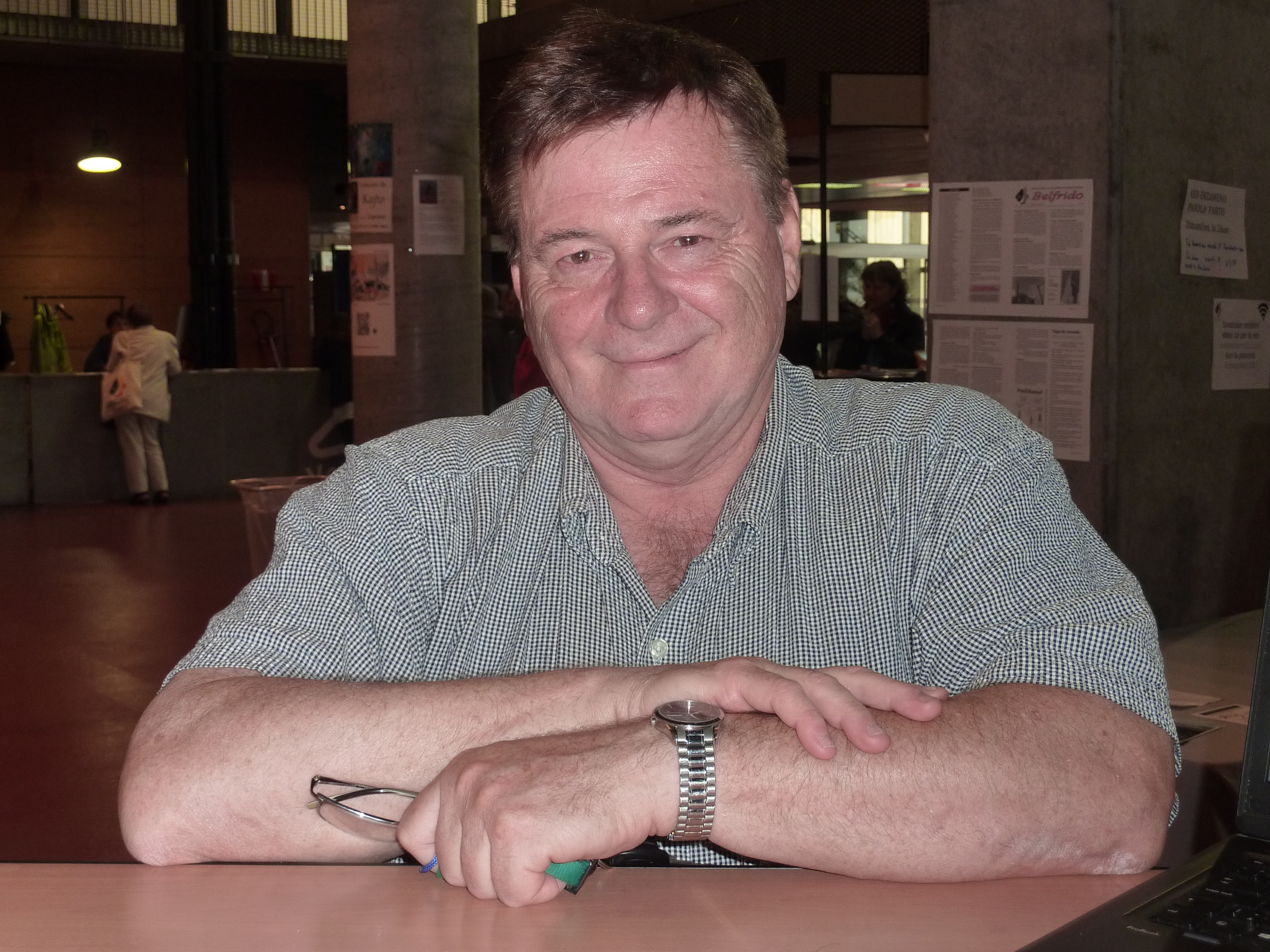 Polish-American Esperantist and biologist Leszek Kordylewski during the 100th World Esperanto Congress in Lille (France)